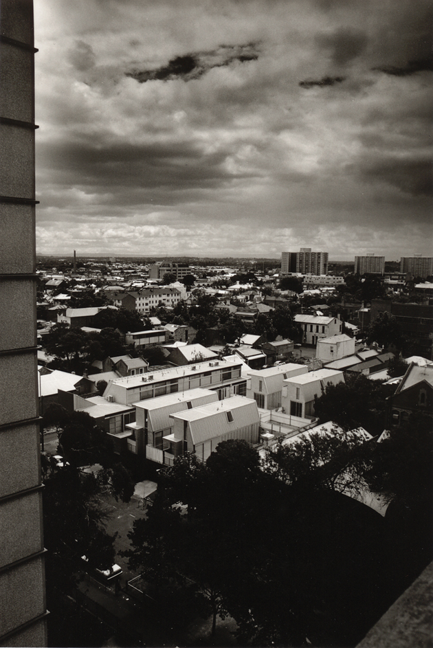 Napier Street Housing photo by Patrick Bingham-Hall